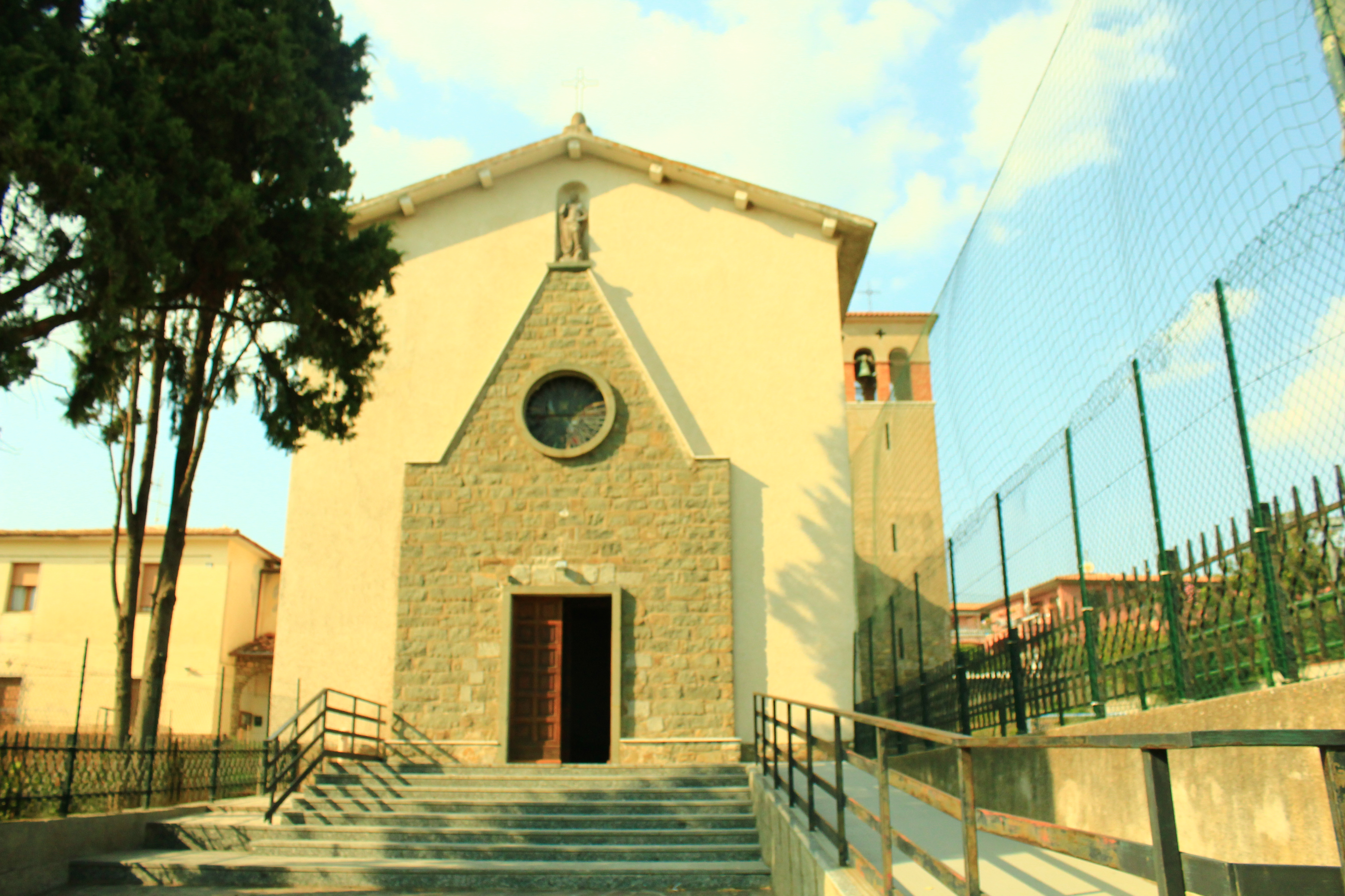 Ernesto Ganelli, church of Santa Maria Goretti in Fonteblanda, Grosseto.